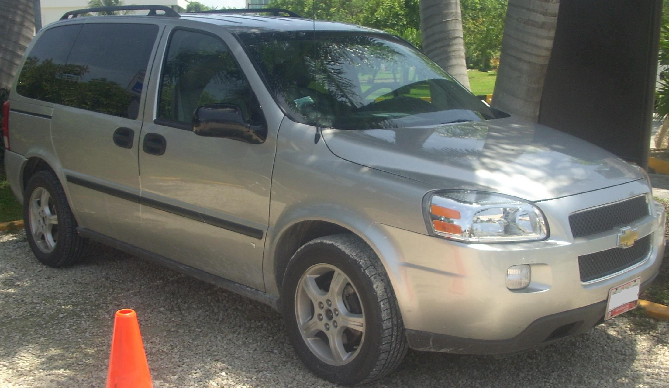 2006-2009 Chevrolet Uplander photographed in Cancun, Quintana Roo, Mexico.